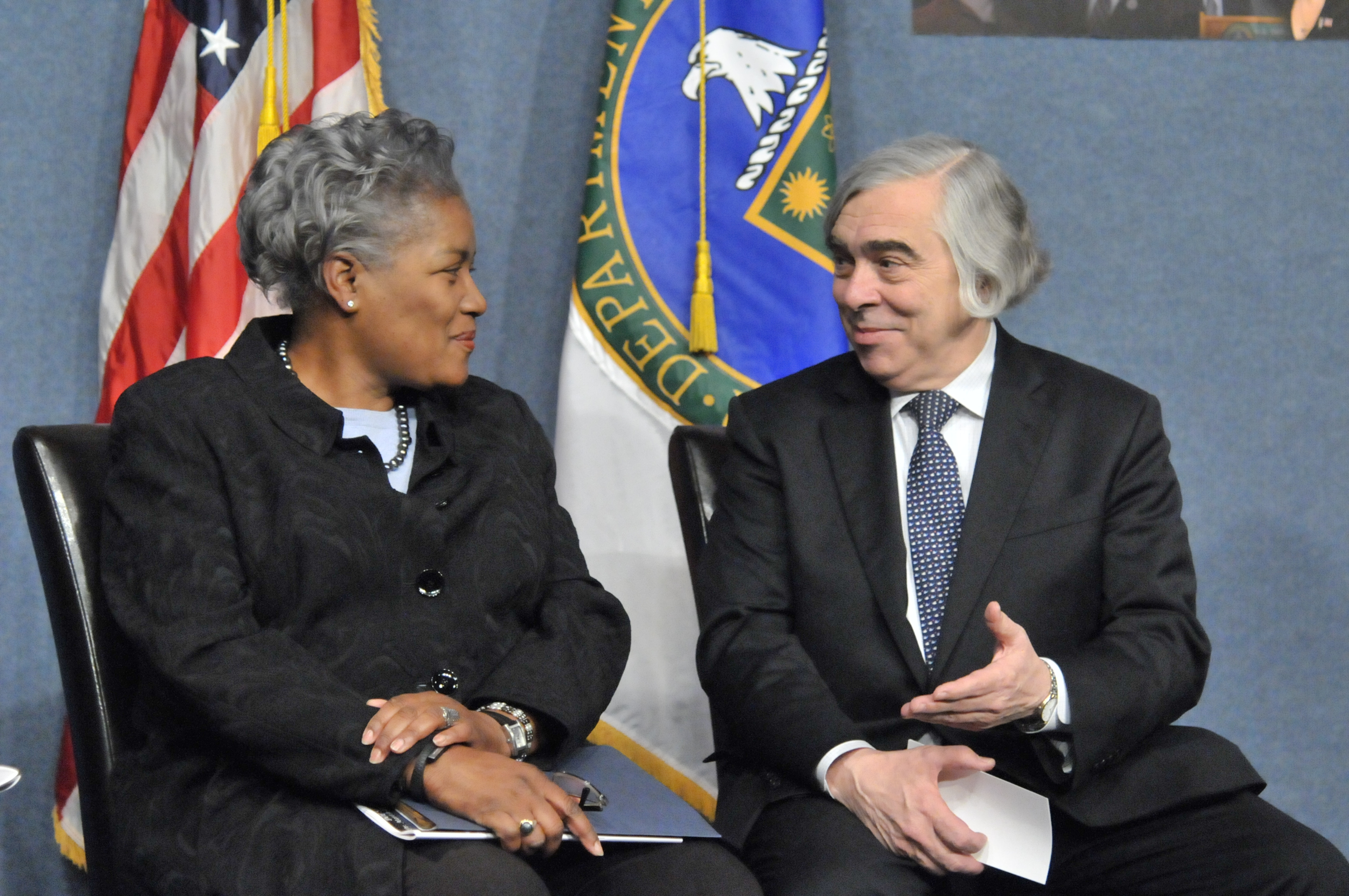 Department of energy -martin luther king / Black history month commemorative program with doe secretary e. Moniz in attendance.